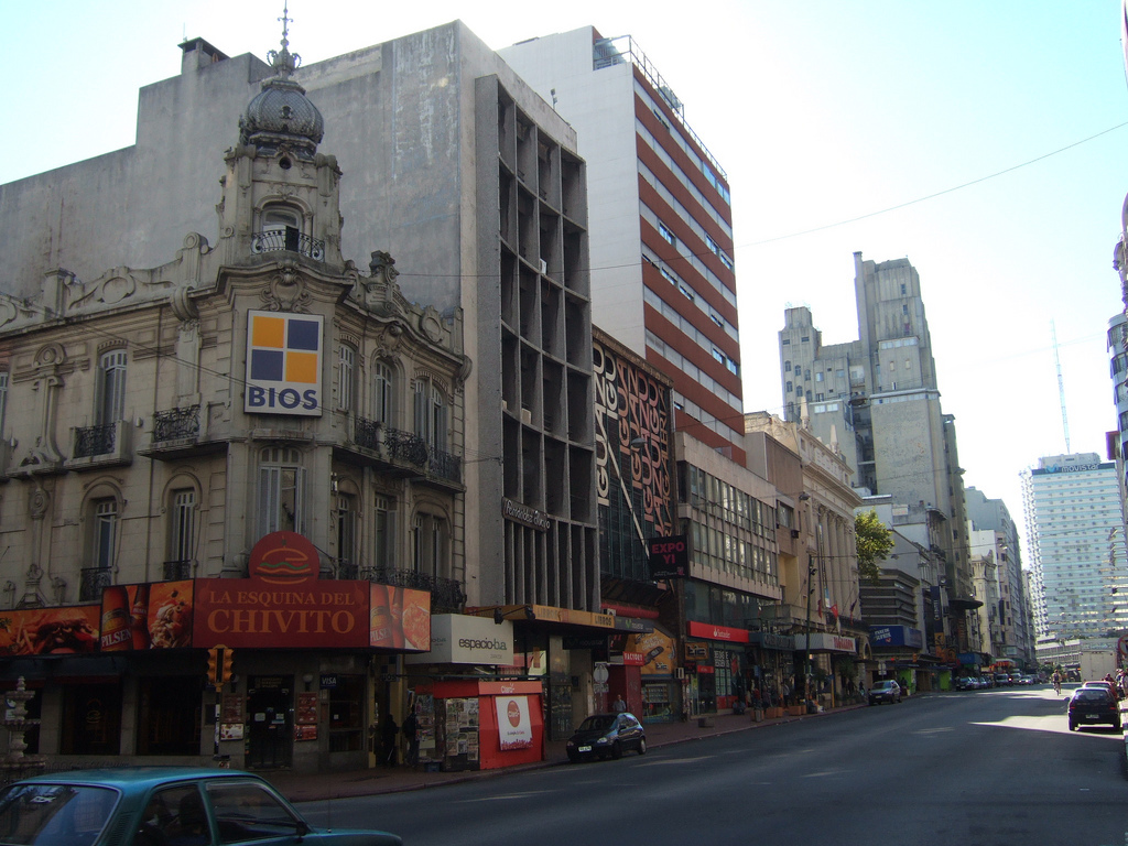 Montevideo downtown, Uruguay. 18 de Julio Avenue. In the foreground, a restaurant serving chivitos, a popular beef speciality.